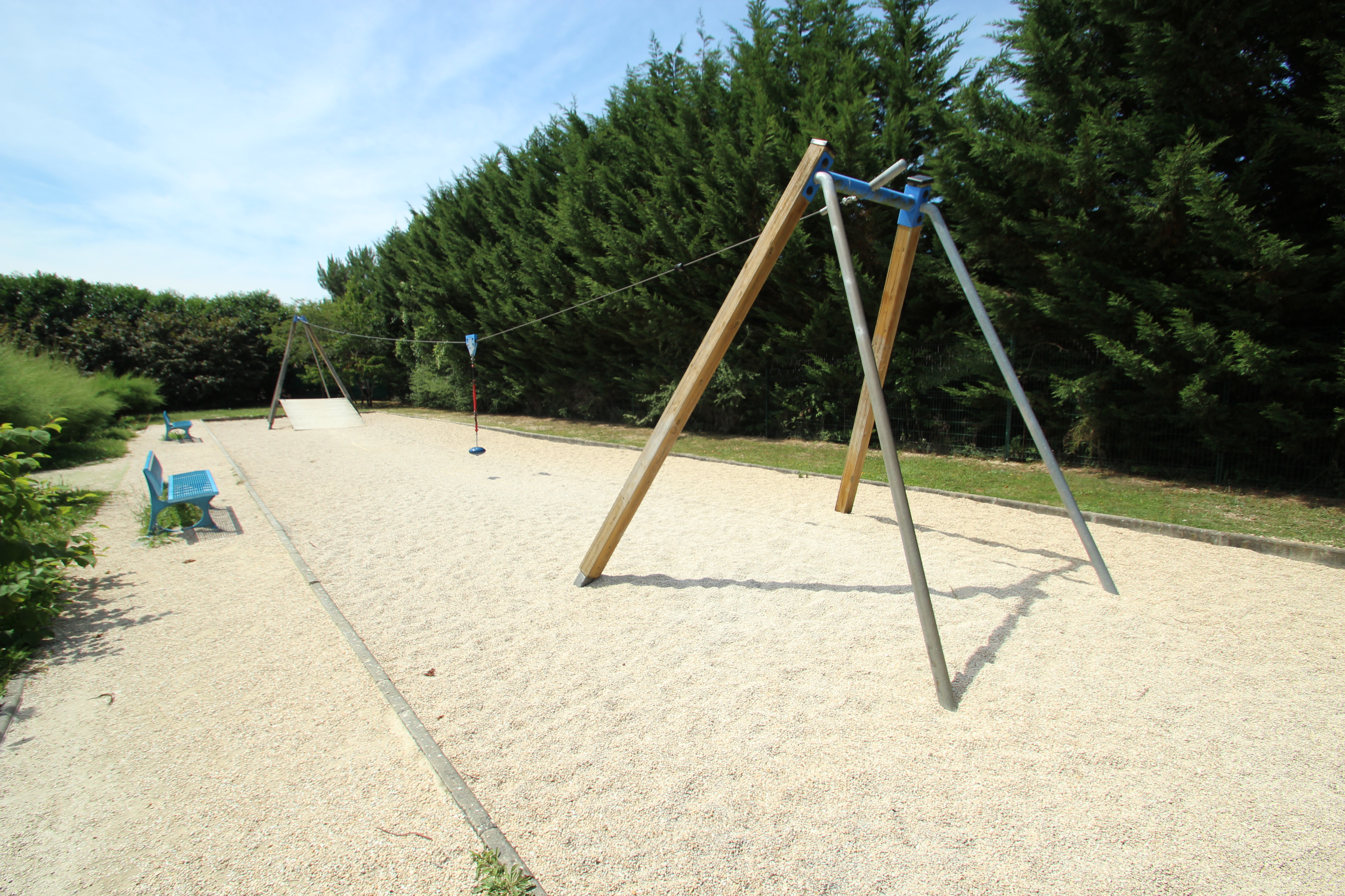 Jacques Cartier playground in Élancourt, France. Object location48° 46′ 10.09″ N, 1° 57′ 55.87″ E This picture as been uploaded as part of L'Été des régions Wikipédia.